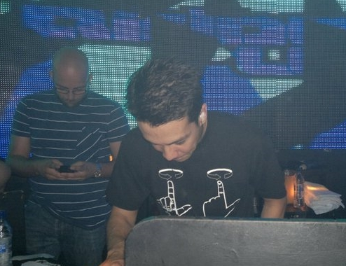 Laidback Luke performing in Sankeys nightclub in Manchester, United Kingdom